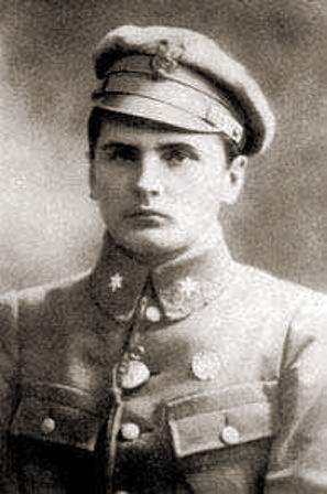 General Stefan Rowecki (1895-1943) - polish commander, officer of Polish Army, leader of the Home Army. Photo from 1915 with order of PDS (Polskich Drużyn Strzeleckich).